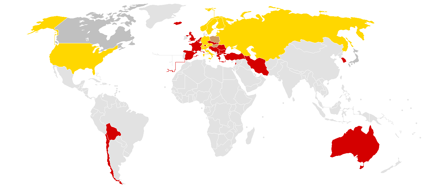 Countries with at least one gold medal Countries with at least one silver medal Countries with at least one bronze medal Countries that didn't get any medal Countries that did not participate